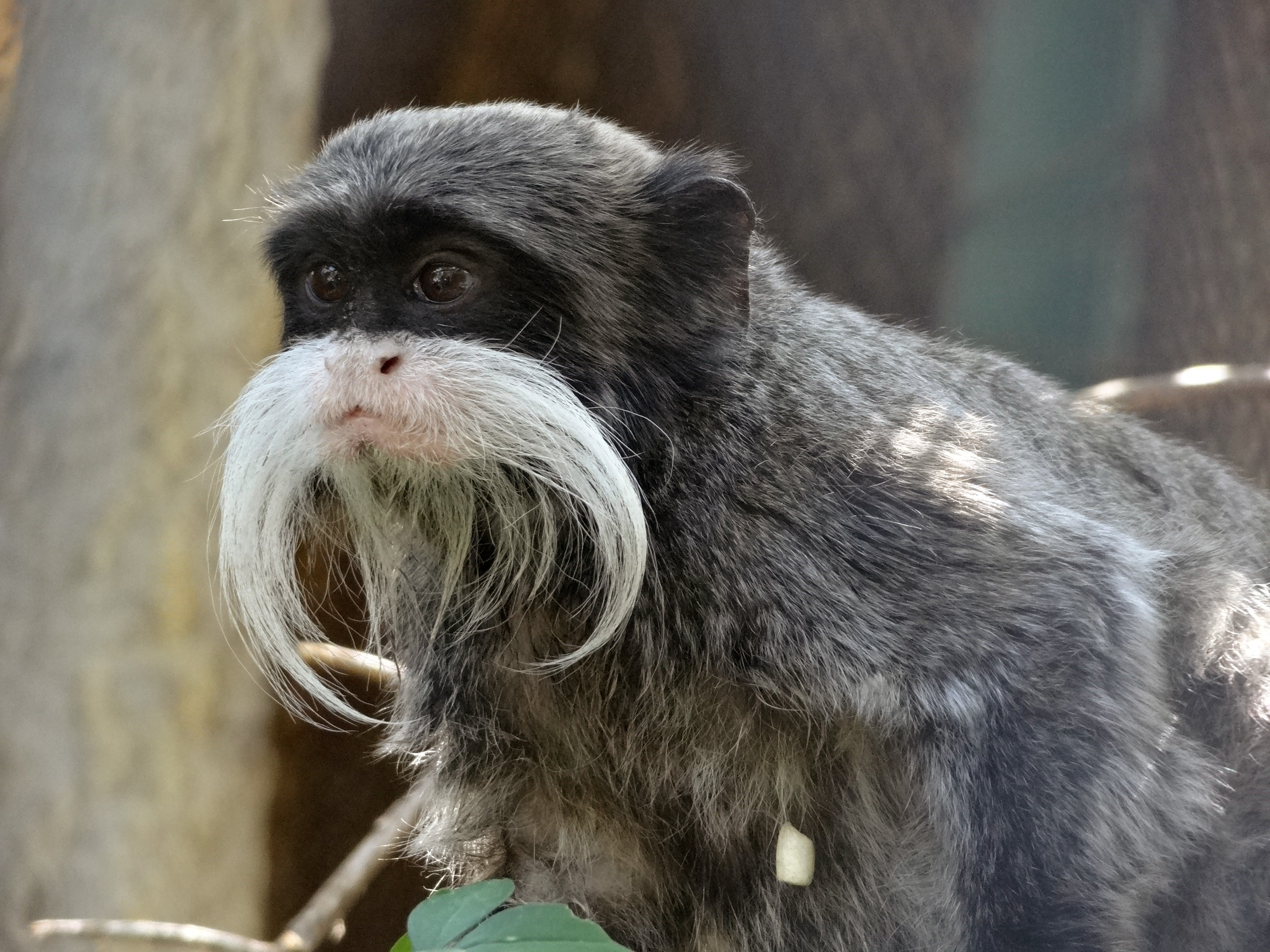 Emperor tamarin (Saguinus imperator subgrisescens).